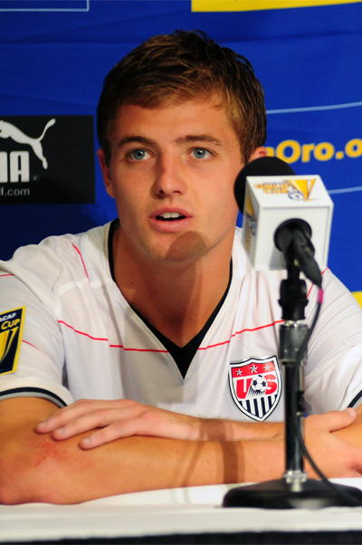 Photo of soccer player, Robbie Rogers. Wilson Wong photo.